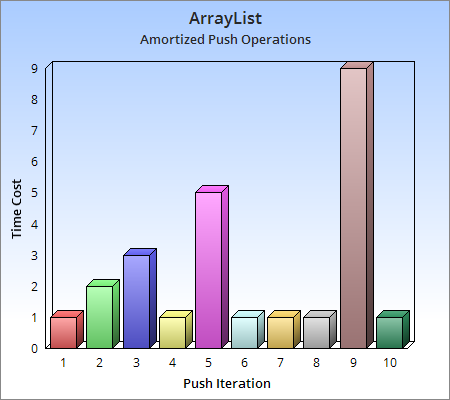 Amortized Analysis of the Push operation for a Dynamic Array